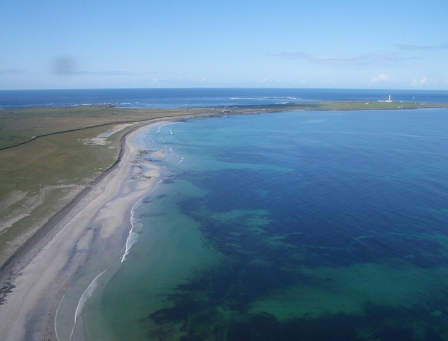 Aerial view of Linklet Bay. Looking down over Linklet Bay from the Islander plane as it leaves North Ronaldsay. The sheep dyke can be seen cutting off the area of the Links from the rest of the island, and the lighthouse at Dennis Head is just visible at the tip of the island.